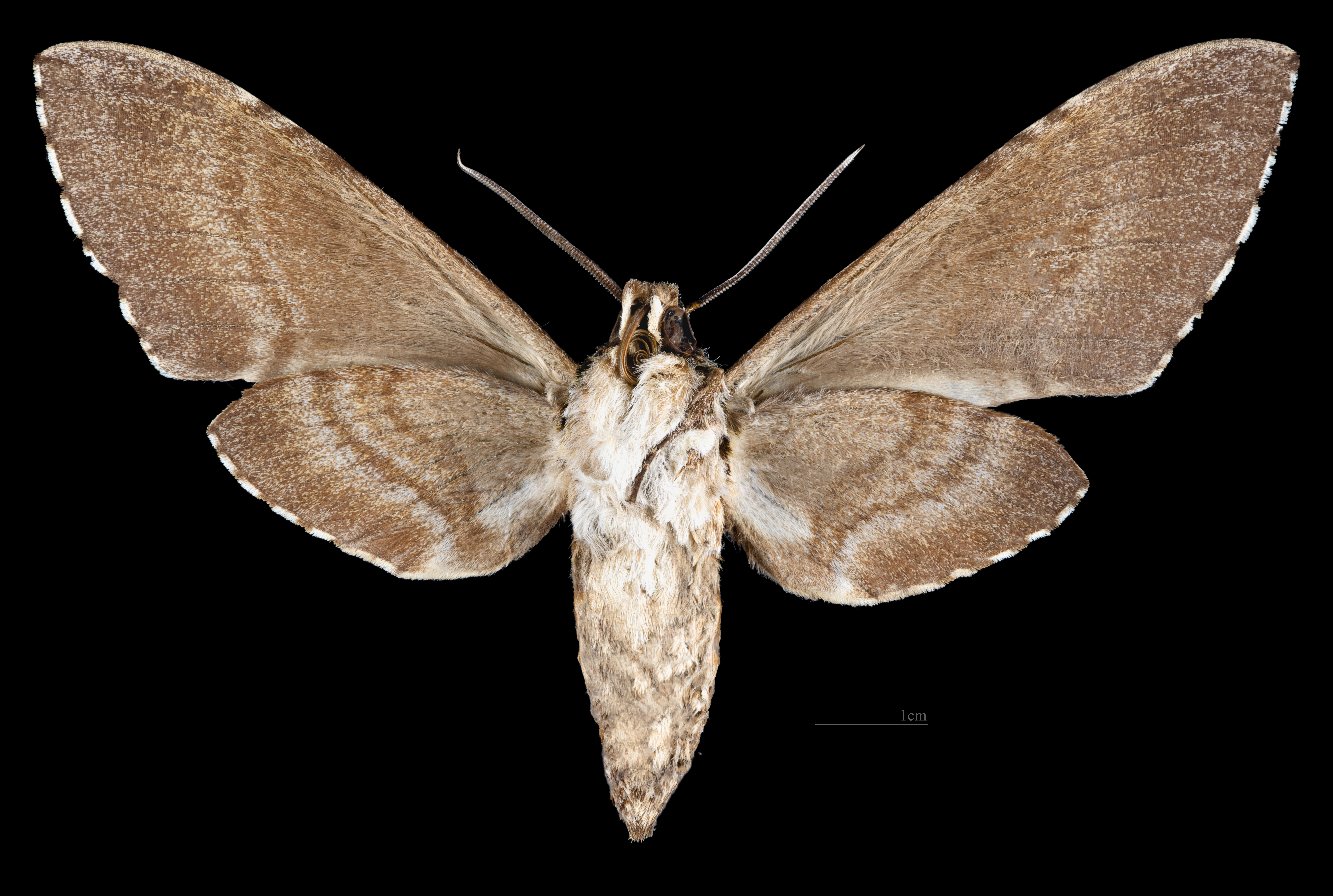 Manduca lanuginosa - △ Ventral side Collection of the Mathematician Laurent Schwartz